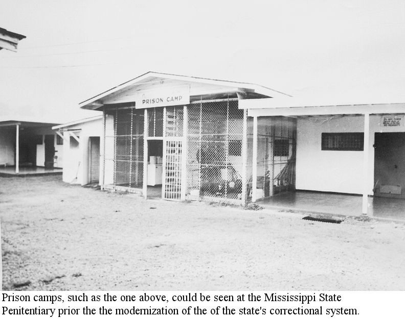 A typical Parchman prison camp "Prison camps, such as the one above, could be seen at the Mississippi State Penitentiary prior to the modernization of the of the (sic) state's correctional system.